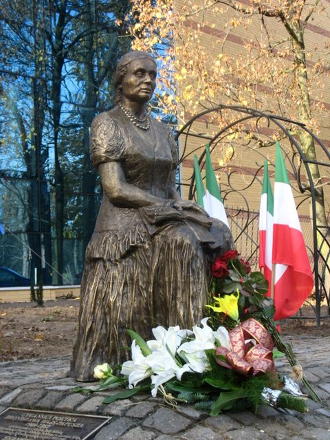 Monument of gipsy poet, Bronislawa Wajs Papusza in Gorzow Wielkopolski (Poland).